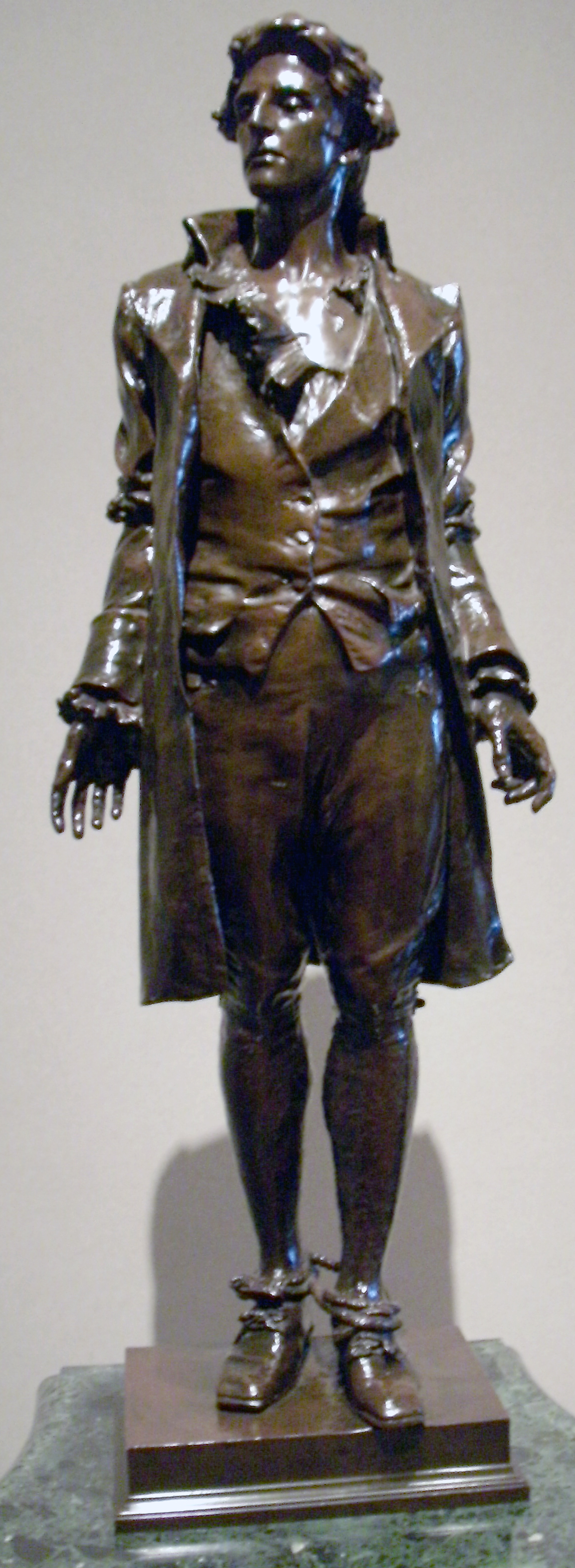 Nathan Hale (model 1889/1890, cast 1890). Cropped and lightened from an image I took for Wikipedia.